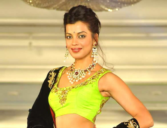 Mugdha Godse at Celebs walk the ramp at Umeed-Ek Koshish charitable fashion show